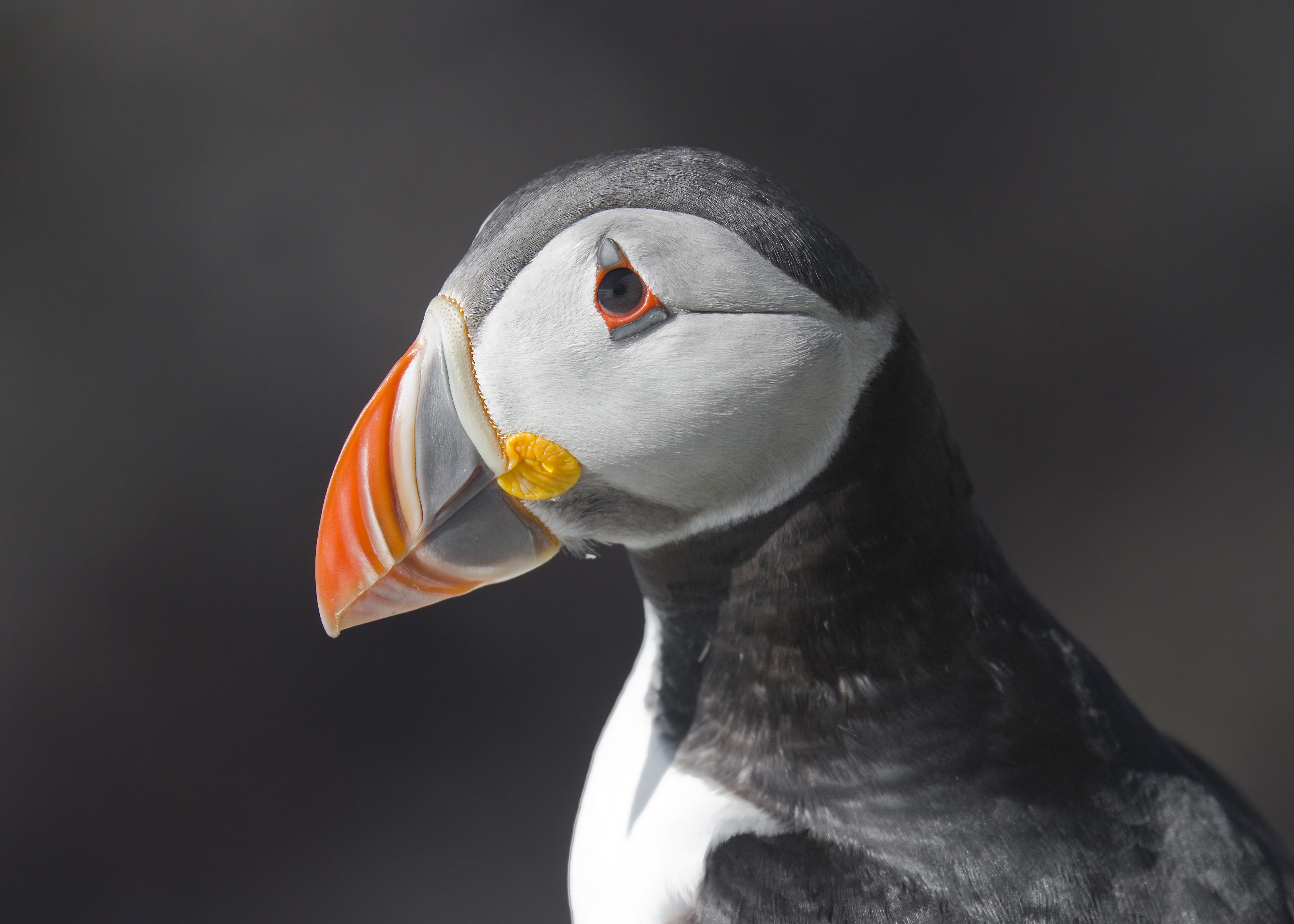 An Atlantic Puffin.